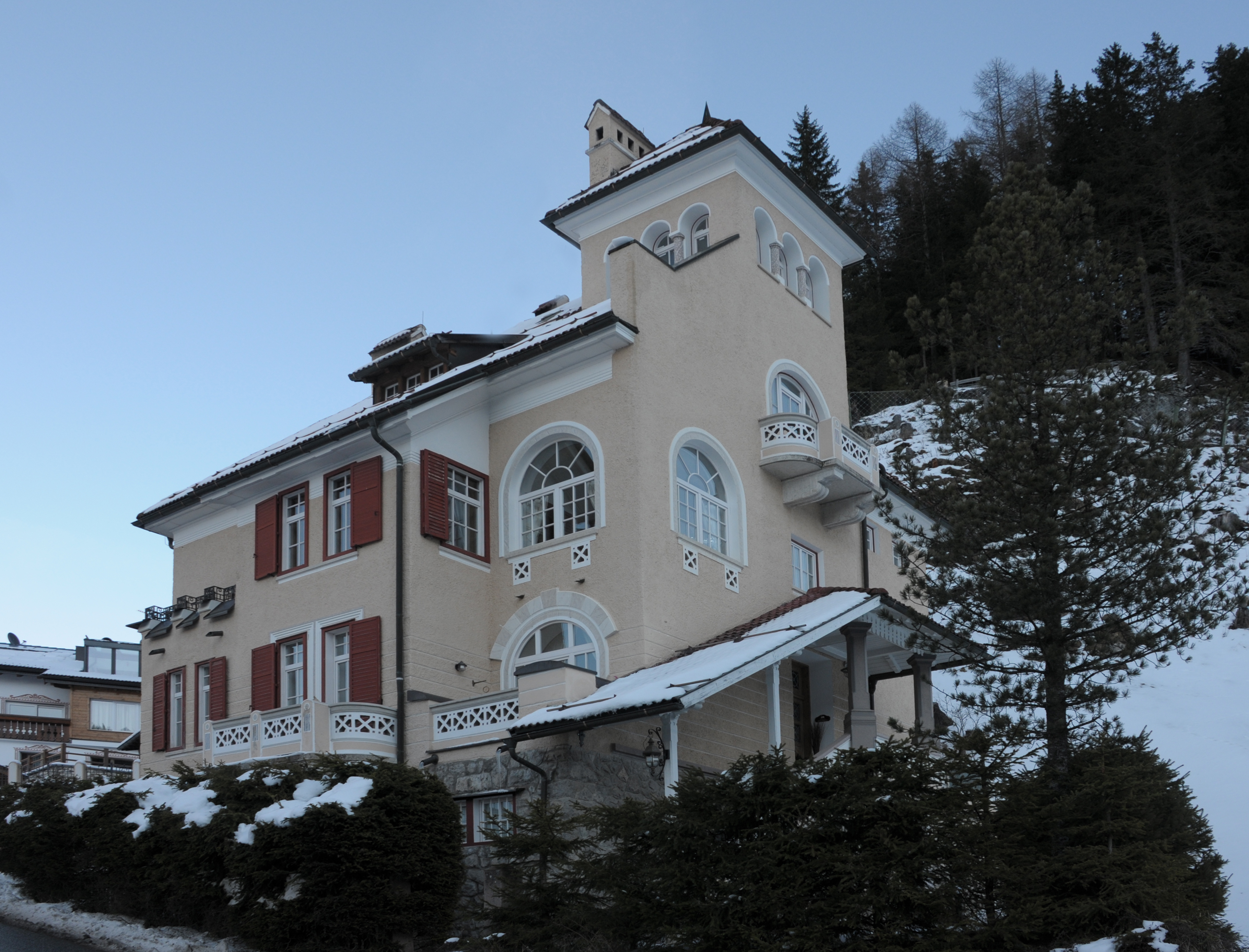 Wolkensteinschlössl in Sëlva Gherdëina